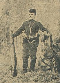 Portrait of IMARO member Silyan Pardov from Buf